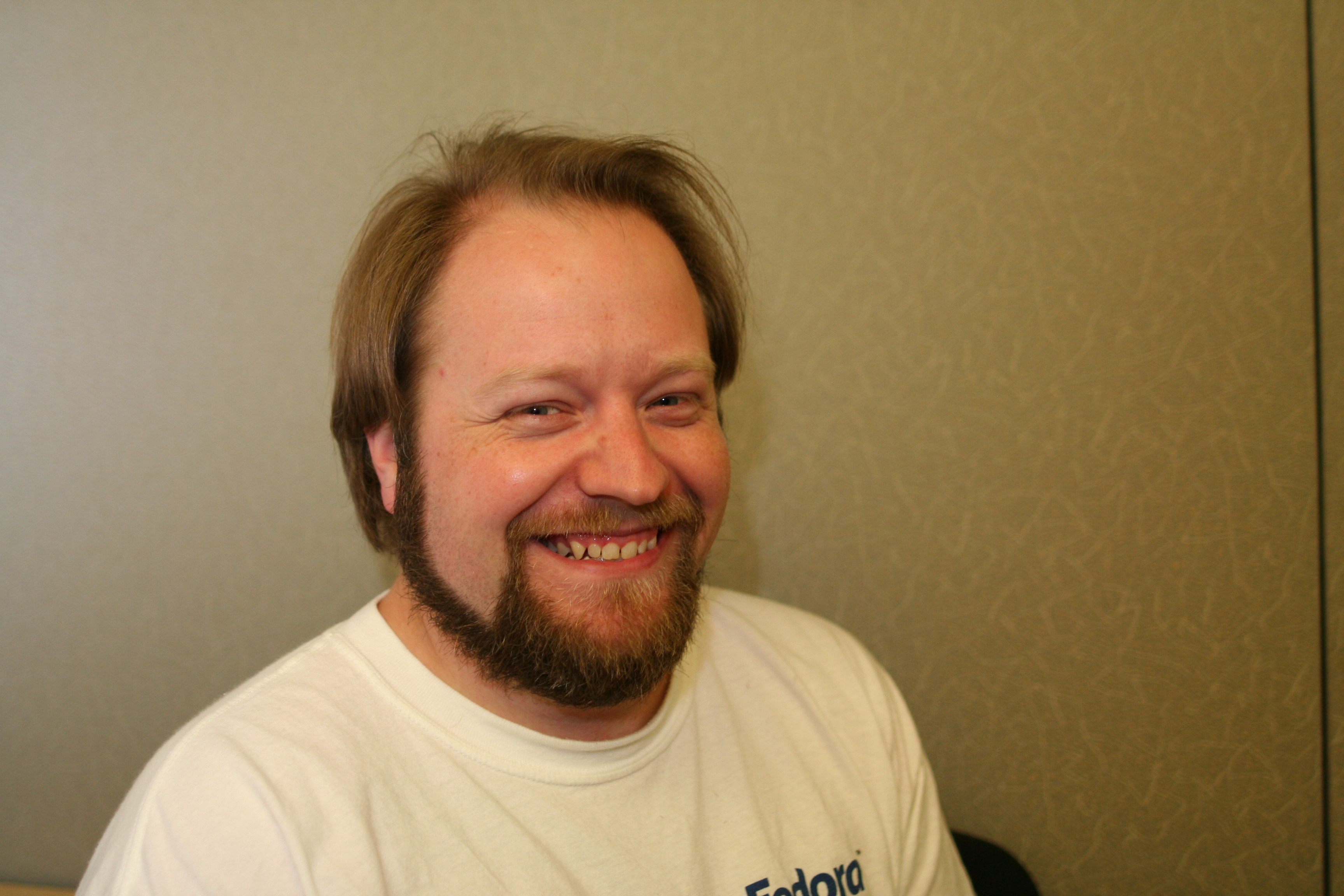 American computer programmer Christopher Blizzard.